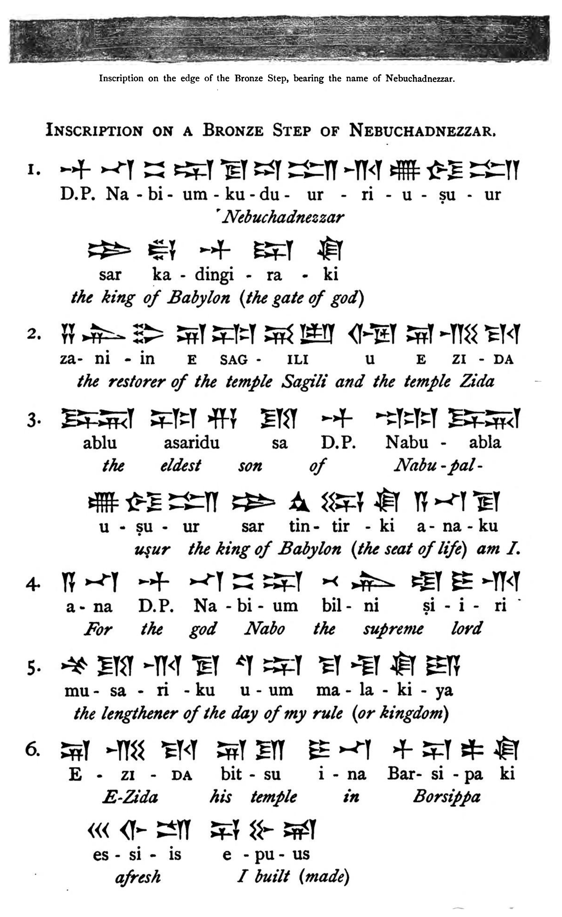 Nebuchadnezzar II bronze step inscription